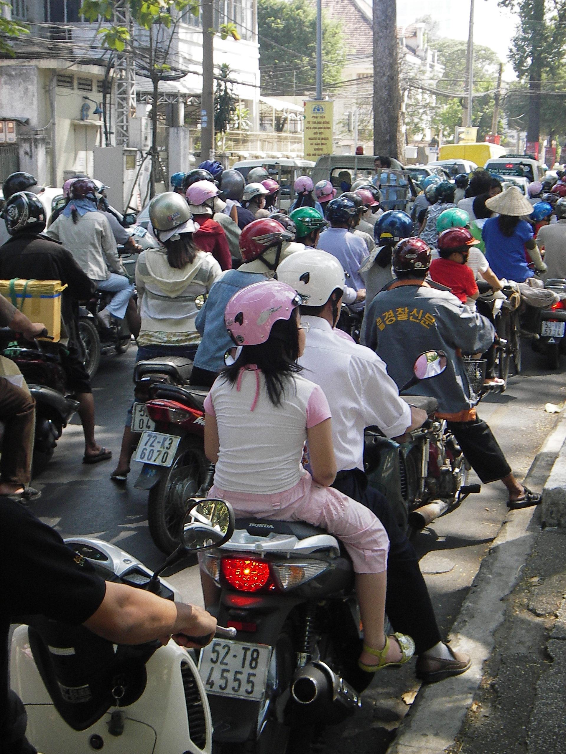 Traffic jam near the Renunification Palace.